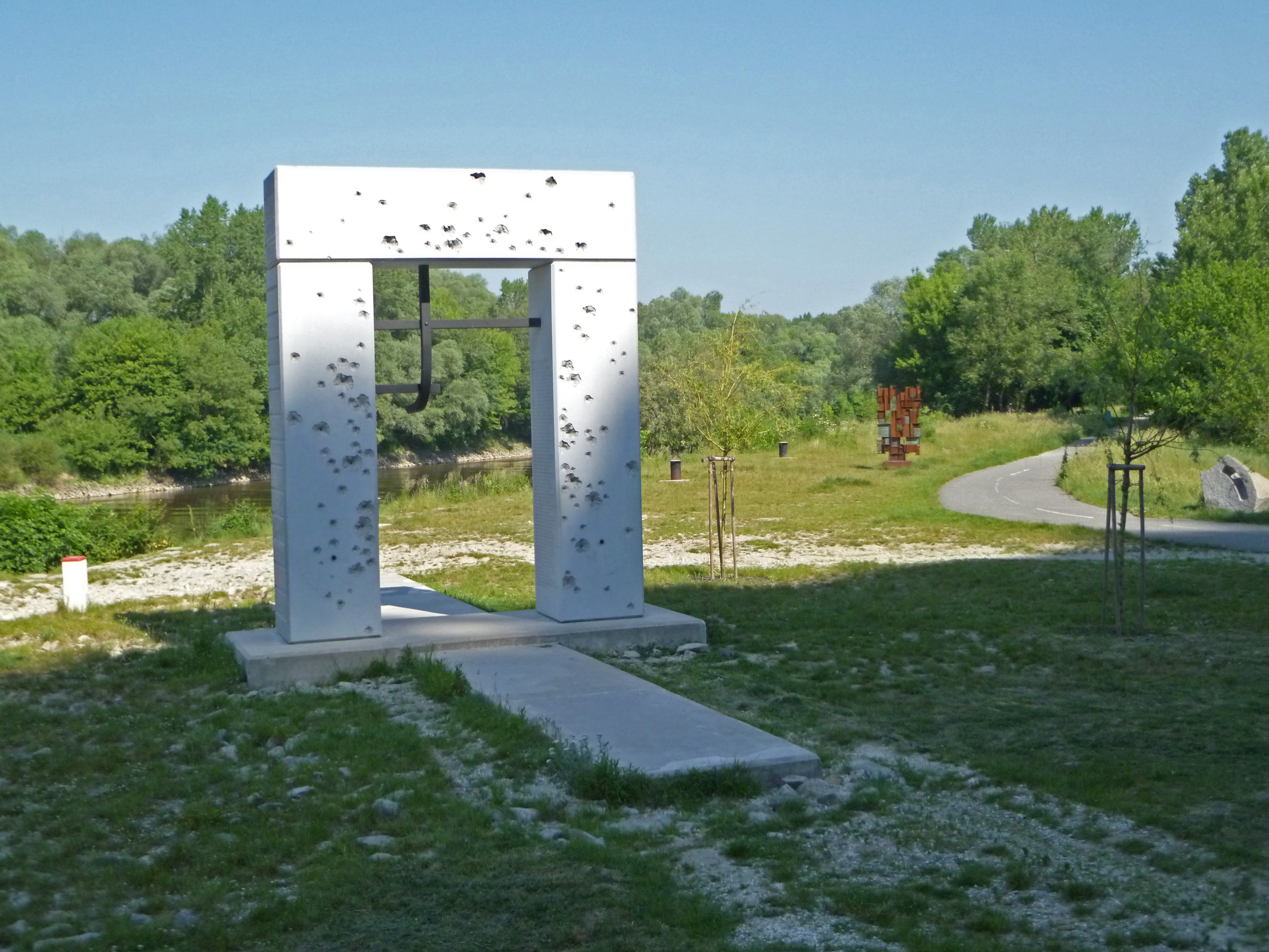 Memorial for the 400 men and women who were shot trying to escape to Austria during the Communist regime; at the confluence of the rivers Morava and Danube; Bratislava, Slovakia.